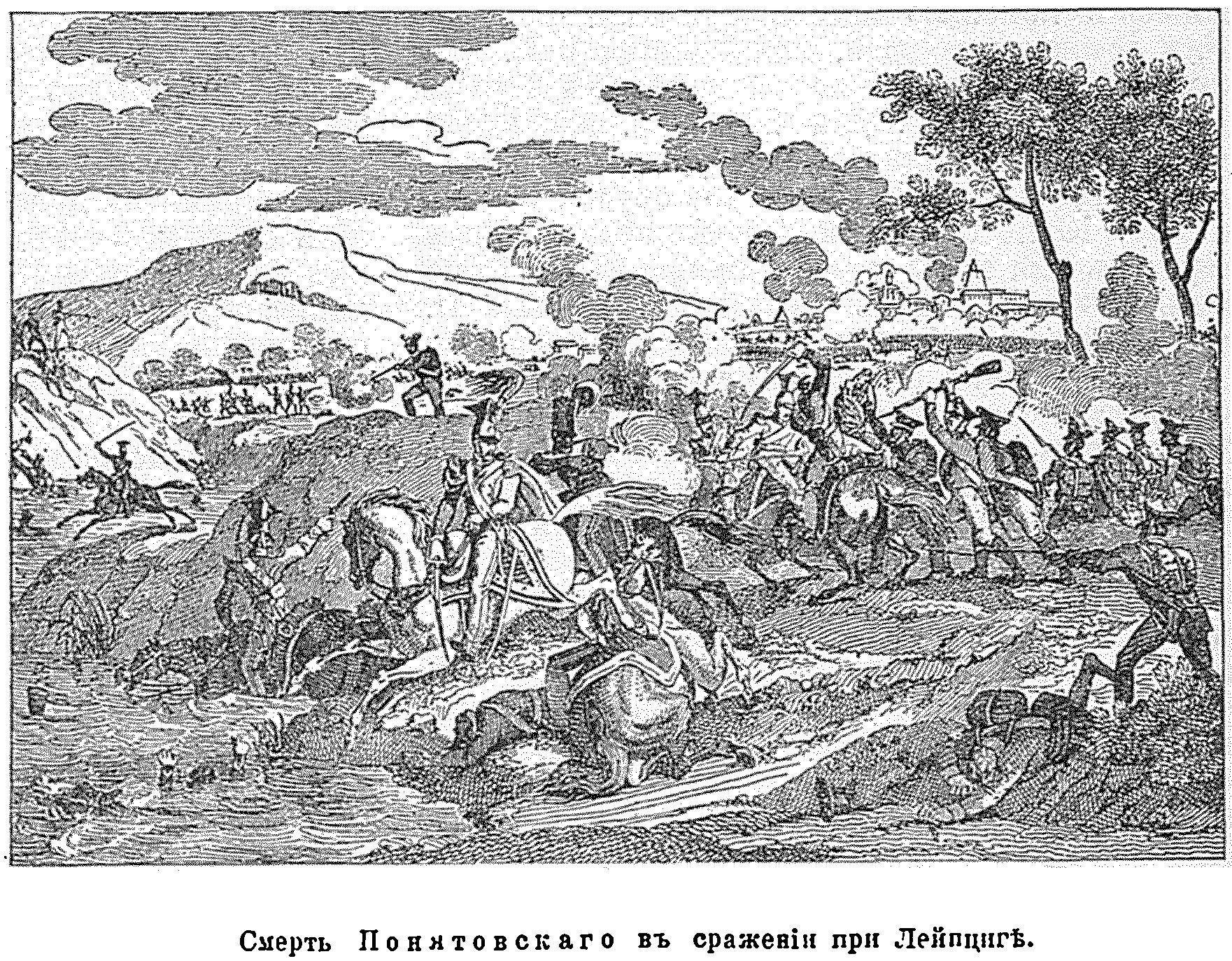 Józef Antoni Poniatowski. Battle of Leipzig.